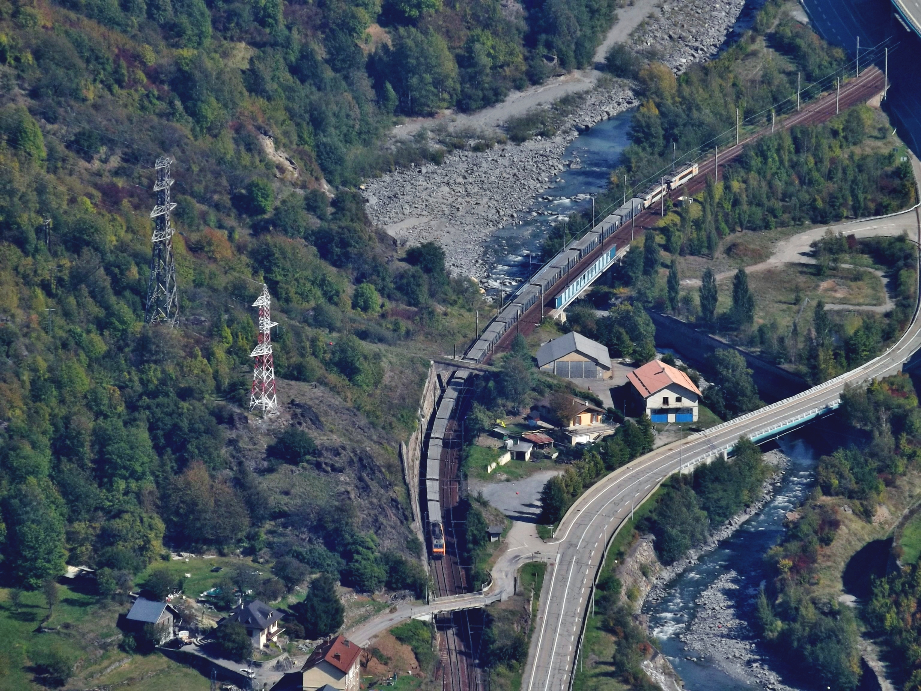 Sight of a Freight train bound for Italy, crossing the river Arc in the Alpine valley of Maurienne after leaving Saint-Michel-de-Maurienne, in Savoie, France. It is pulled by two SNCF Class BB 7200 and pushed by a SNCF Class BB 26000.